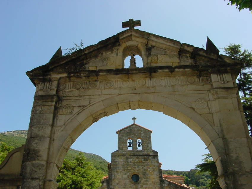 Large entrance at Santa María del Puerto, Santoña (Cantabria)